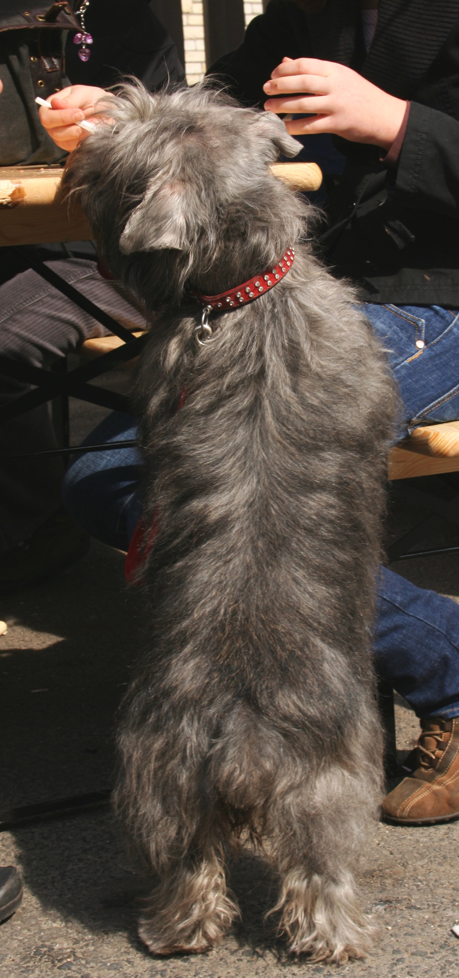 Irish Glen of Imaal Terrier during International show of dogs in Katowice - Spodek, Poland. Breeder - Piotr Kuźnik